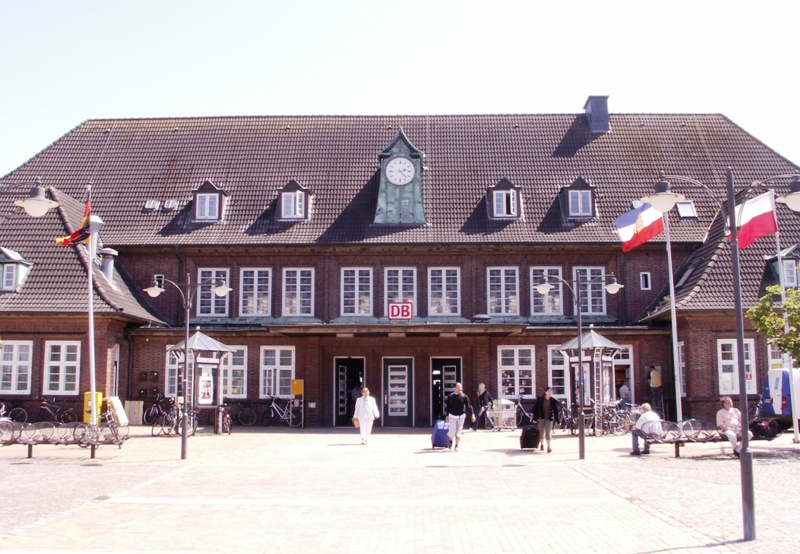 Westerland train station, Sylt island, Germany